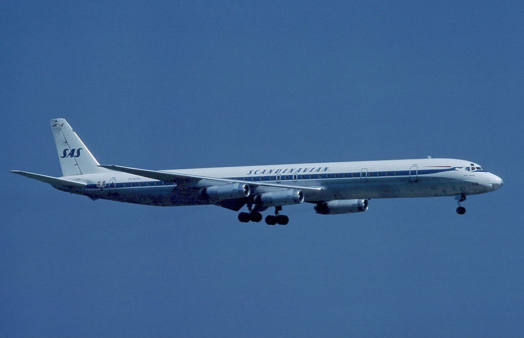 Scandinavian Airlines System Douglas DC-8-63 OY-KTH at Zürich International Airport